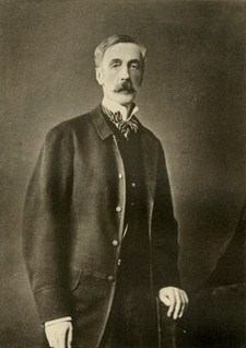 AlexandrVasilchikov (1818-1881)